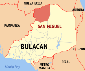 Map of Bulacan showing the location of San Miguel